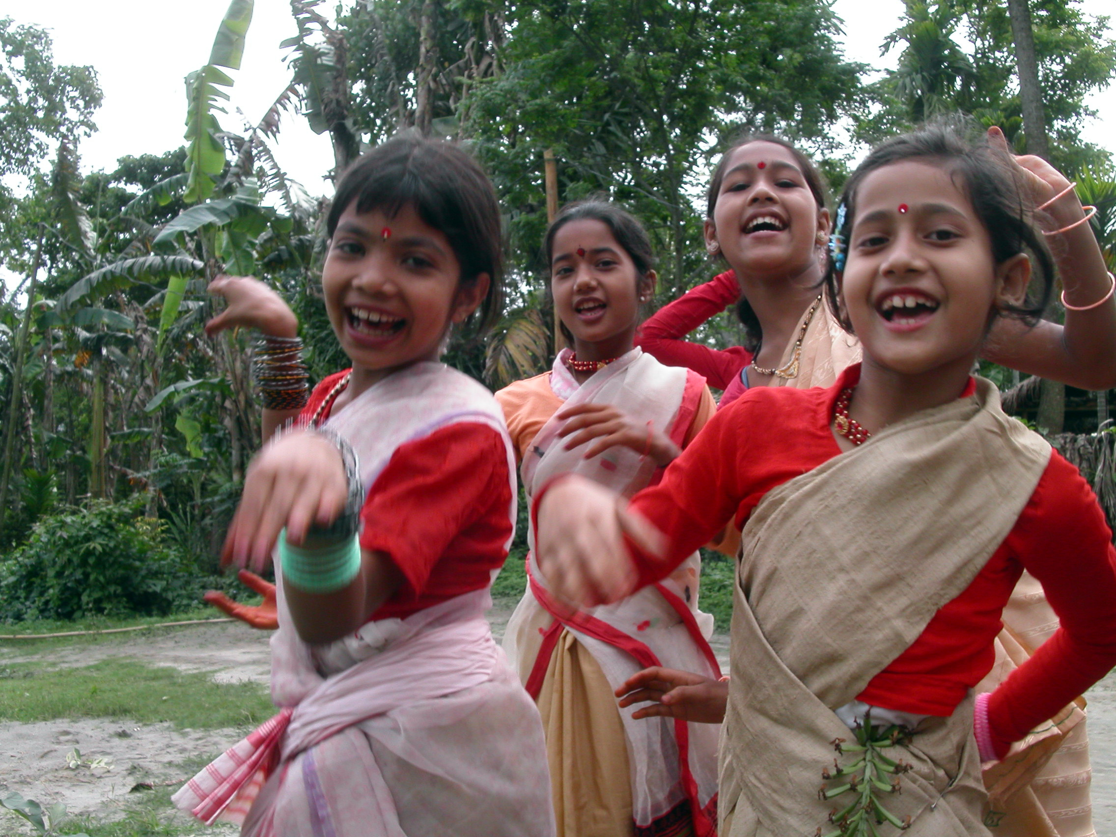 children dancing during rangoli bihu (spring and traditional new year festival) on majuli island, Assam, India, April 2006